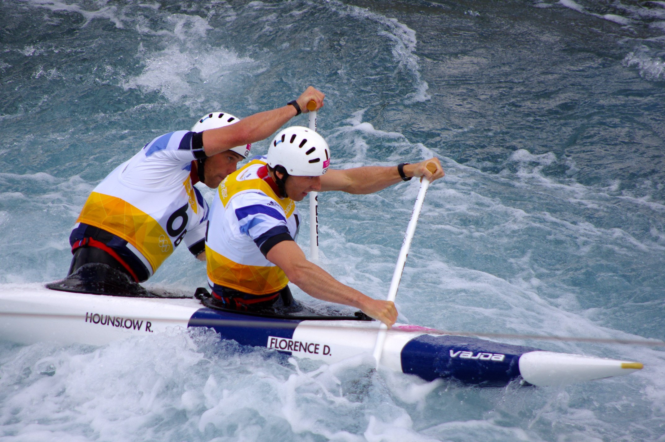 Canoeing at the 2012 Summer Olympics – Men's slalom C-2 David Florence (6A) and Richard Hounslow (6B) (GBR)